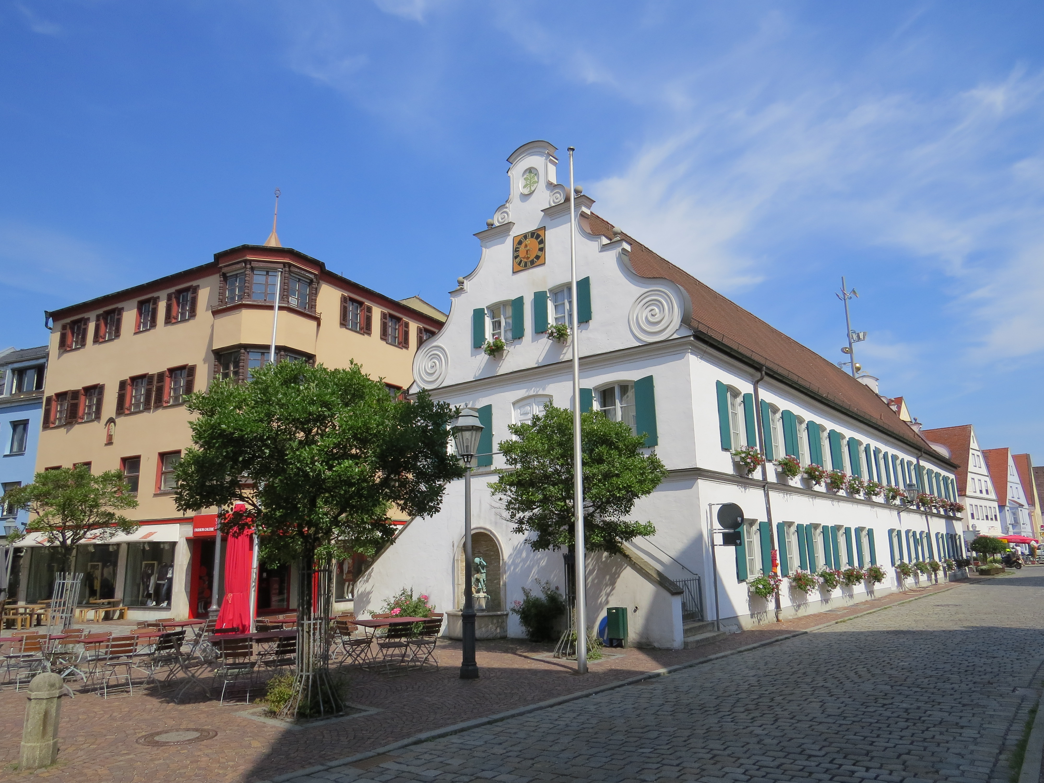 Rathaus in Aichach